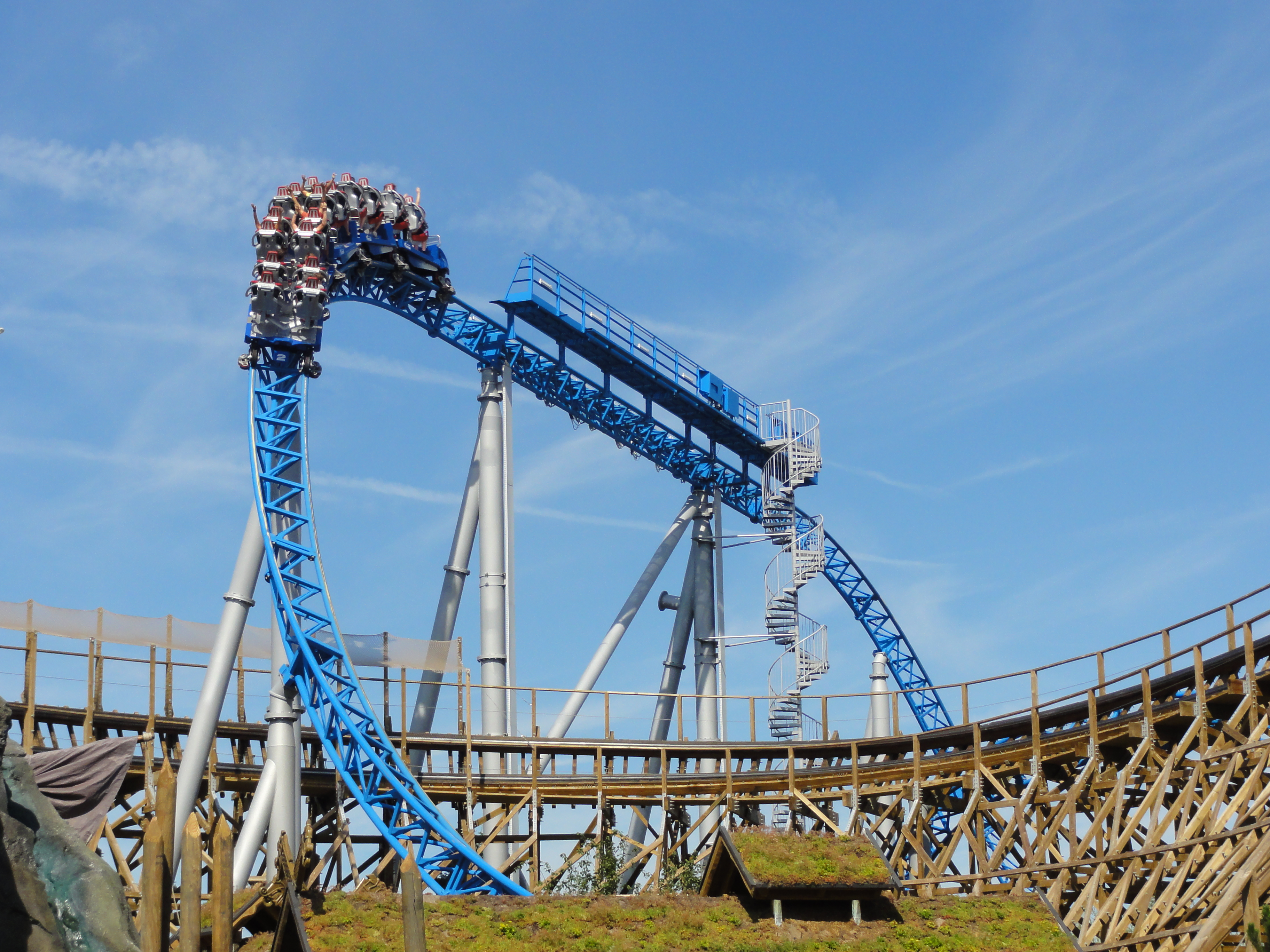 Blue Fire Megacoaster, Europa-Park, Rust, Baden-Württemberg, Germany.